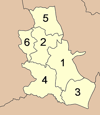 Map of Nongbua Lamphu province, Thailand, with the districts (Amphoe) numbered Mueang Nong Bua Lam Phu (เมืองหนองบัวลำภู) Na Klang (นากลาง) Non Sang (โนนสัง) Si Bun Rueang (ศรีบุญเรือง) Suwannakhuha (สุวรรณคูหา) Na Wang (นาวัง)